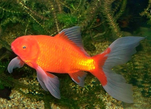 This is a comet goldfish with his 1 year old son